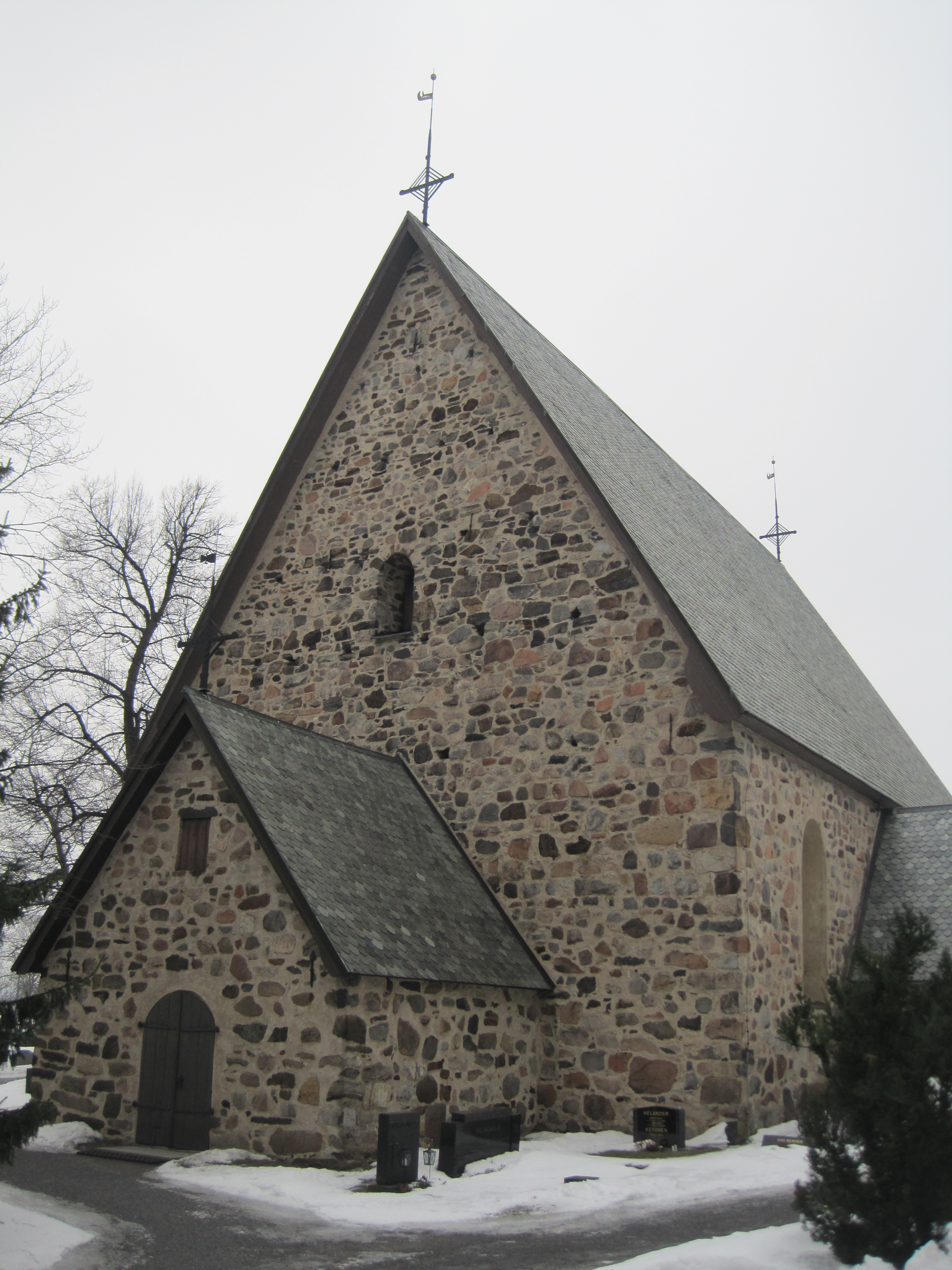 Saint Catherine's Church, Turku, Finland check usage